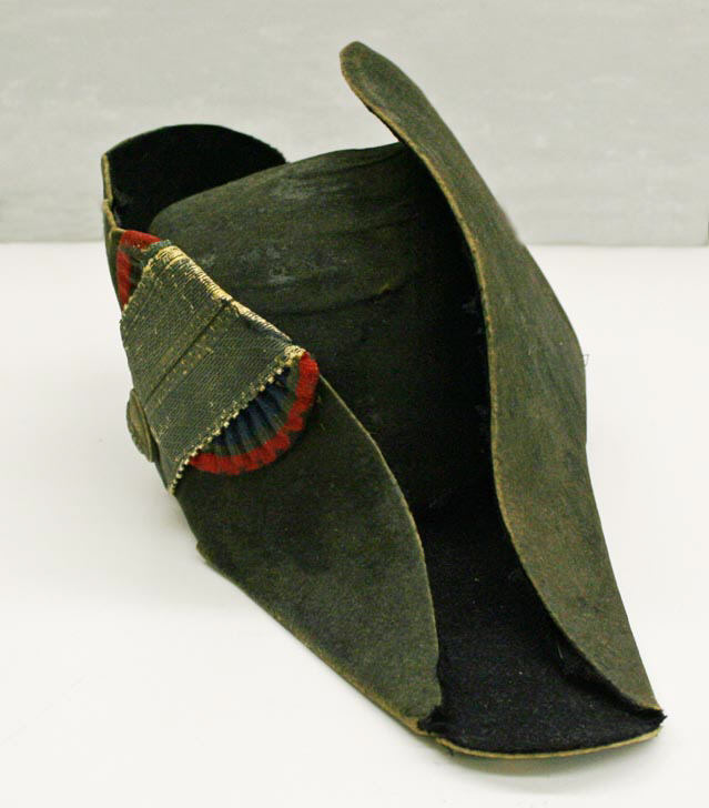 British; Hat